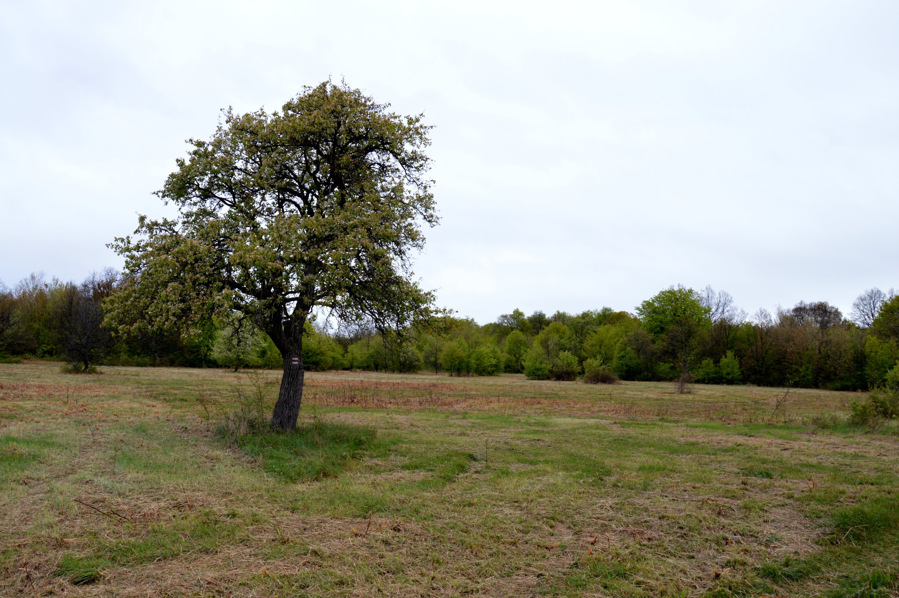 Pohansky hrad (Pohansky Castle) - plateau